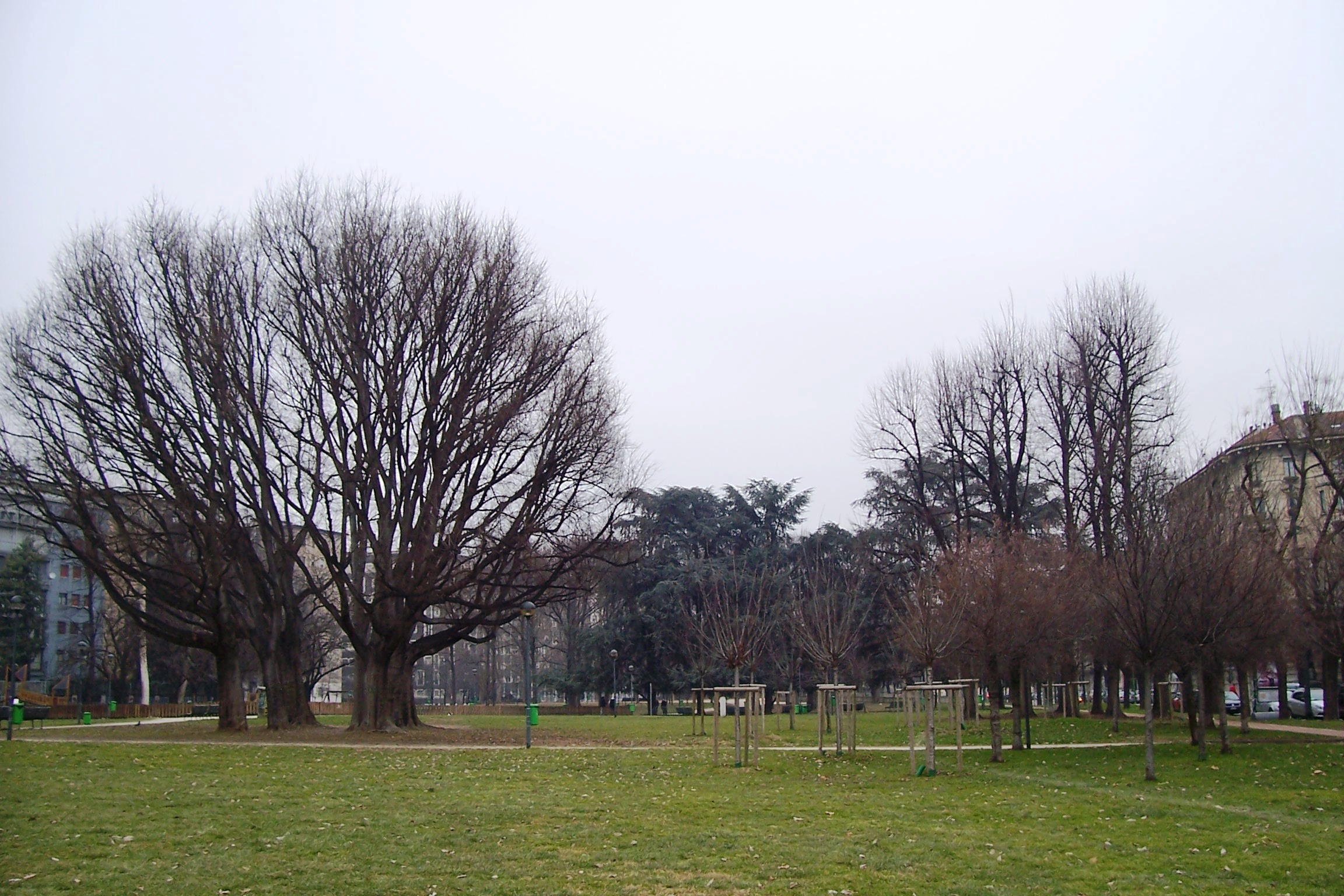 Milano, trees in the Pallavicino park